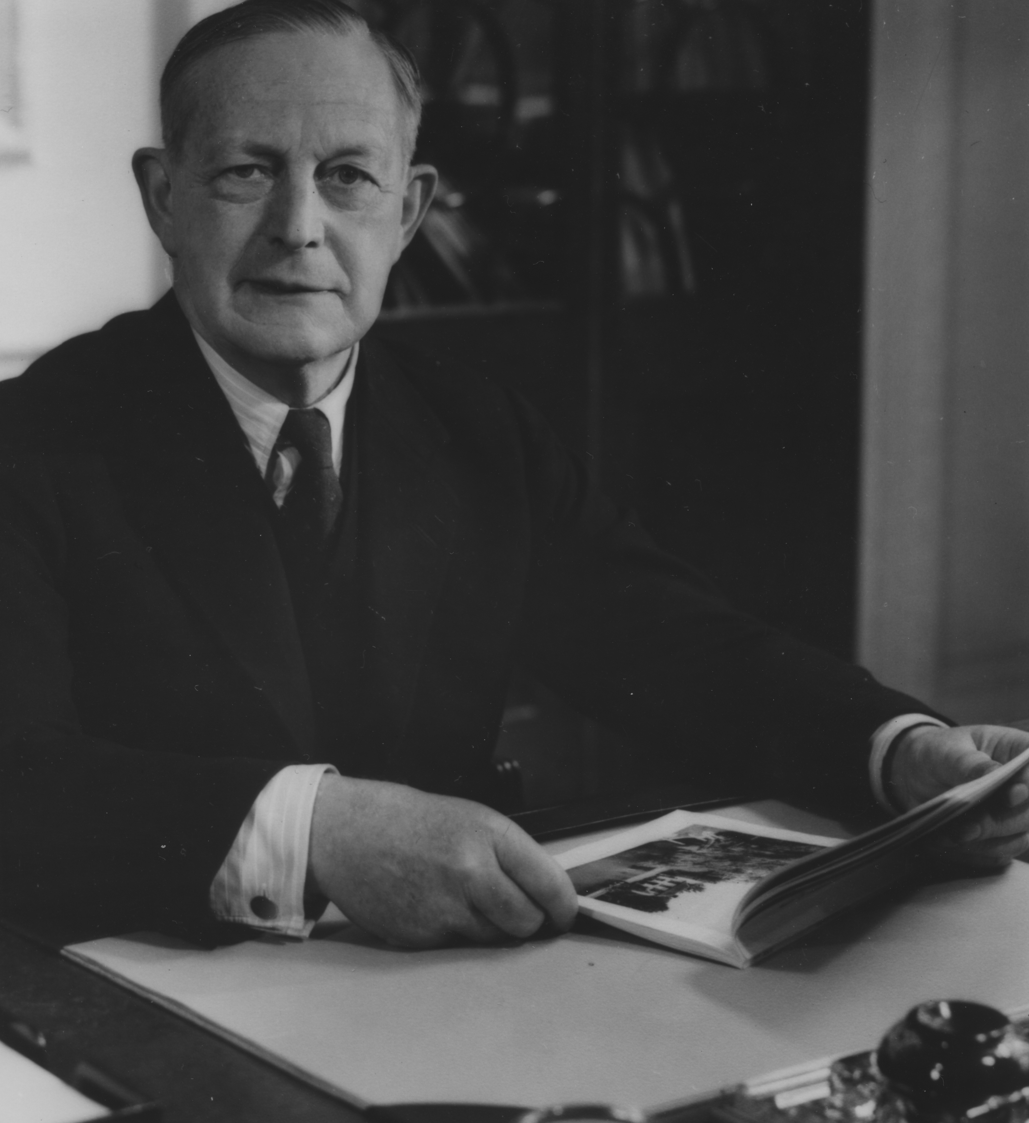 Chairman of the LSE Court of Governors 1940-1957, Director of the Bank of England IMAGELIBRARY/614 Persistent URL